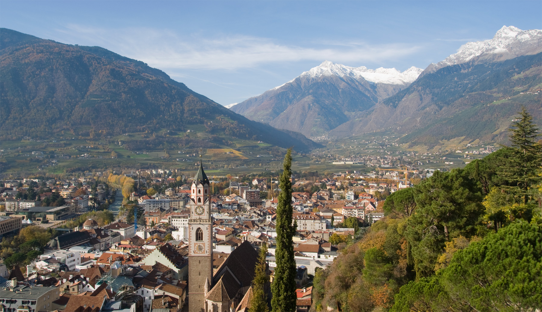 Meran, view towards Northwest - Zielspitze 3.009m/ 9872 ft (center) and Tschigat 2.998m/ 9836 ft (right) in the background